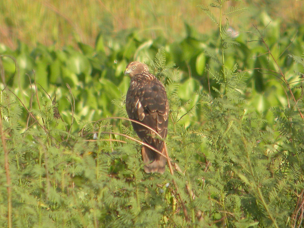 Eastern Marsh Harrier (Circus spilotonus), Candaba Marsh, Luzon.